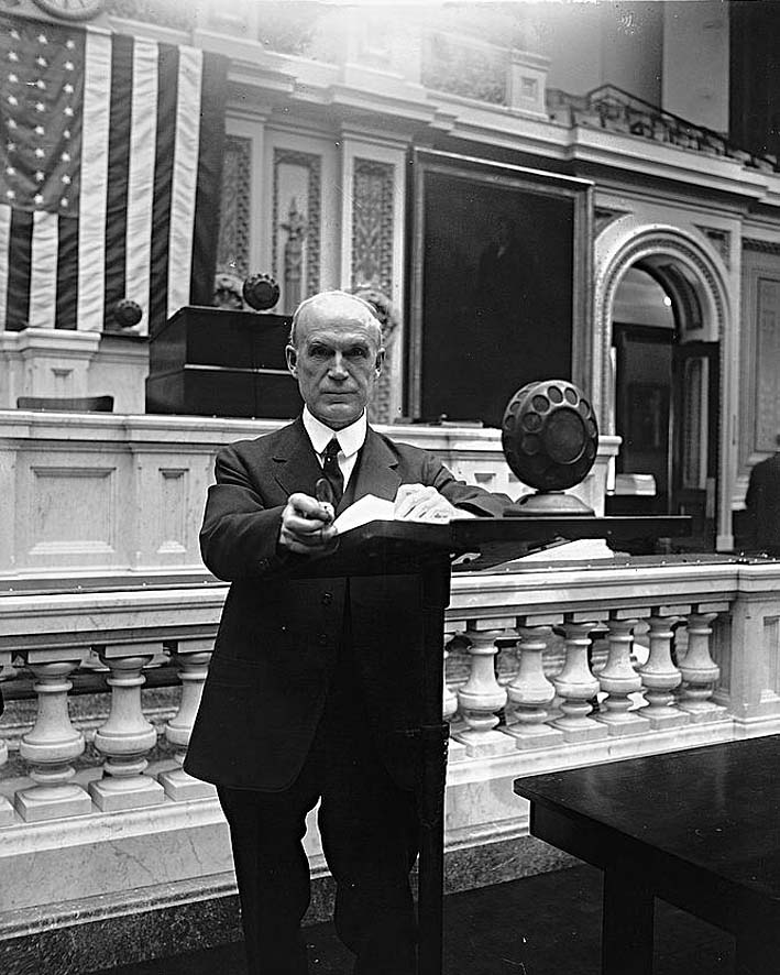 Simeon D. Fess, US Senator and Congressman from Ohio